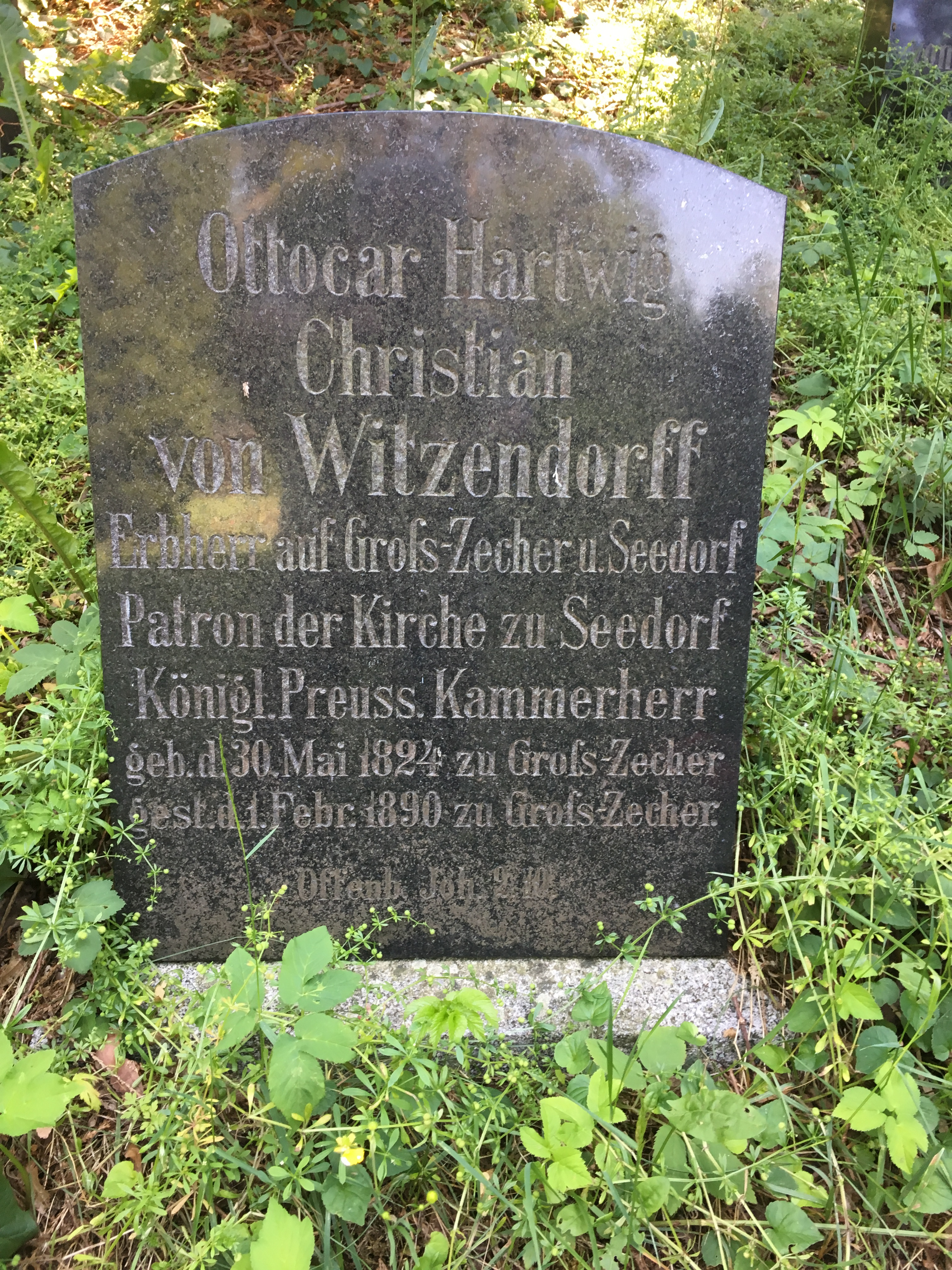 St. Clemens und St. Katharinenkirche (Seedorf)